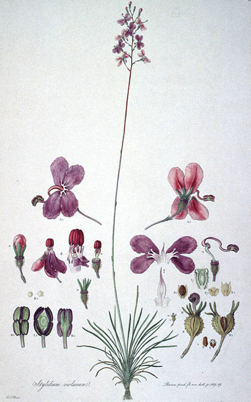 This is a scan of Plate 5 from Ferdinand Bauer's Illustrationes Florae Novae Hollandiae. The plant featured is Stylidium violaceum.